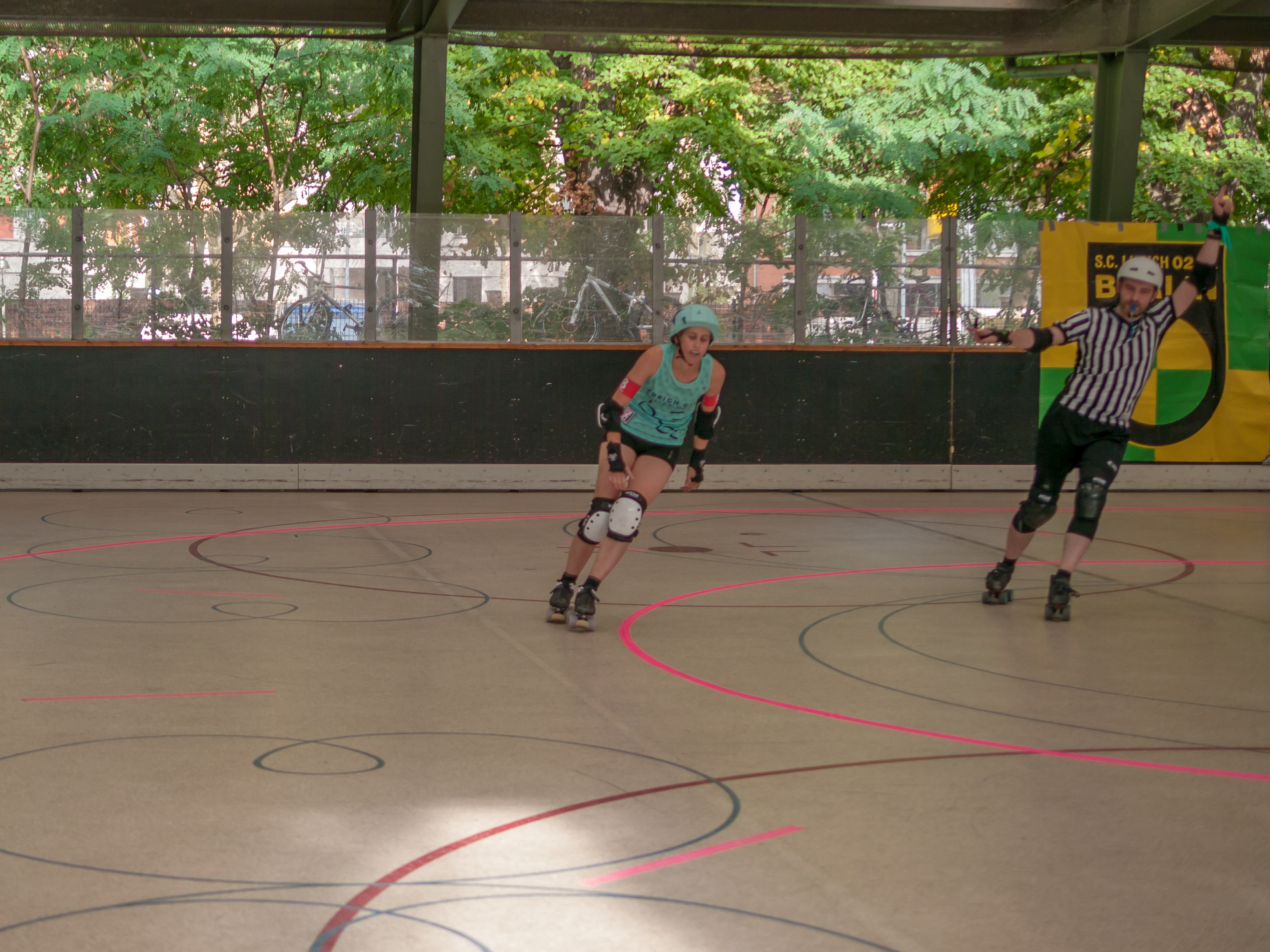 Roller derby Zurich v. Berlin, Sept 2018 at Rollsportanlage Fritz-Schloß-Park